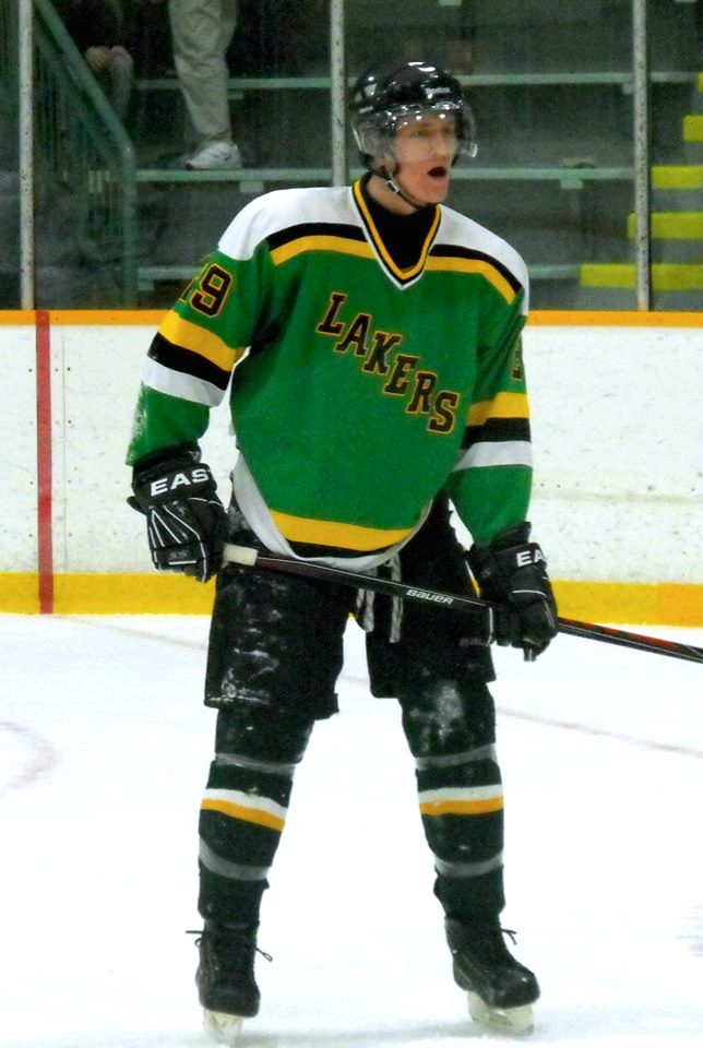 These images of 2014-15 GLJHL action are taken by Devan Mighton.